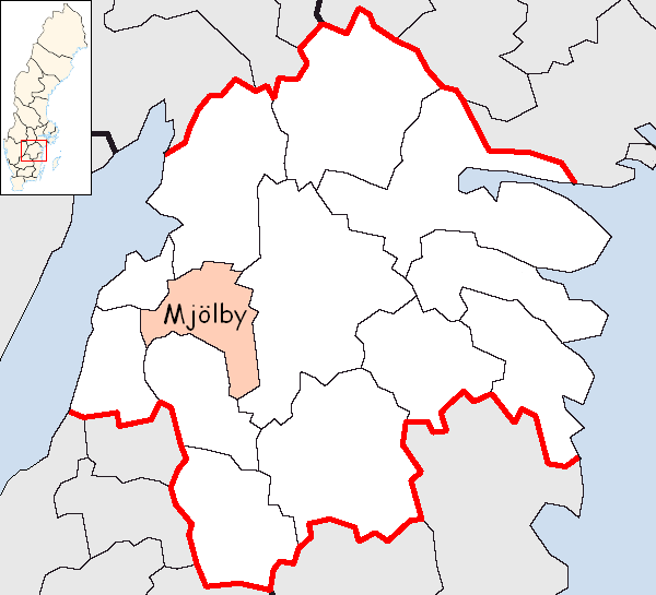 Mjölby Municipality in Östergötland County Designed by me. Mere outlines are a PD source from